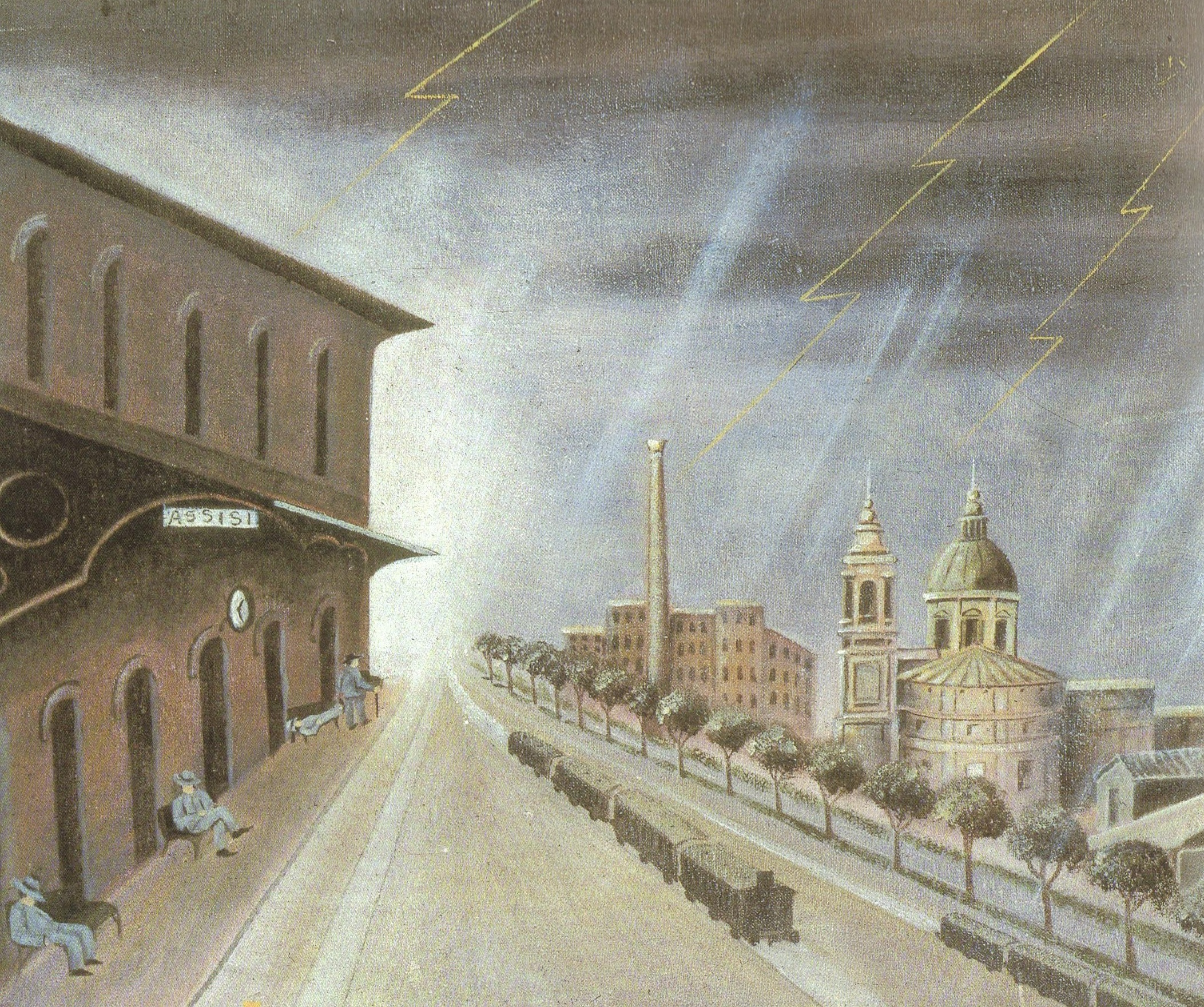 Thunderstorm at Assisi railway station